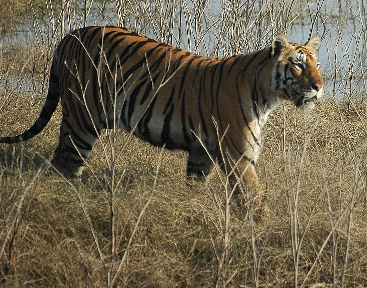 Karmazari Pench National Park